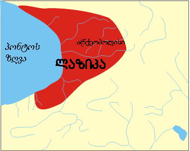 Ge lazika